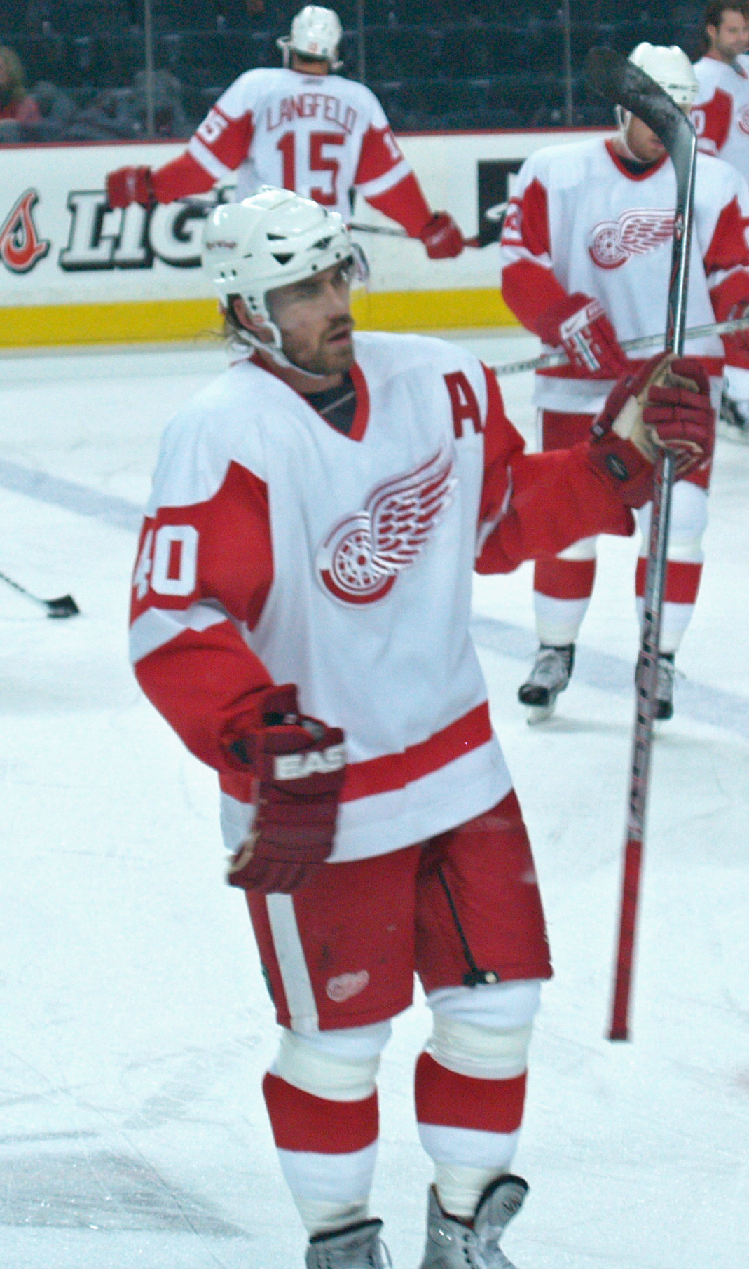 Henrik Zetterberg of the Detroit Red Wings in Calgary, Alberta, November 17, 2006